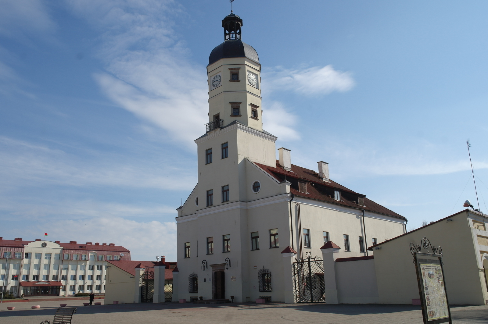 Town Hall with trade rows. The oldest Town hall building in Belarus. Nesvizh_611Г000474